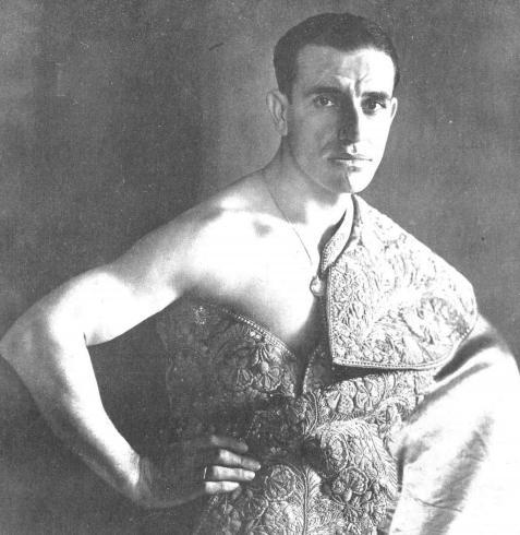 Spanish Bullfighter Juan Belmonte